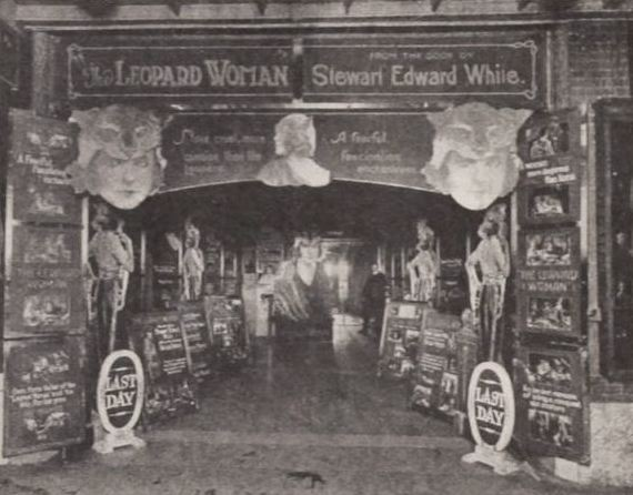 The Rivoli Theater in Portland, Oregon, showing the American drama film The Leopard Woman (1920), on page 47 of the December 3, 1021 Exhibitors Herald.